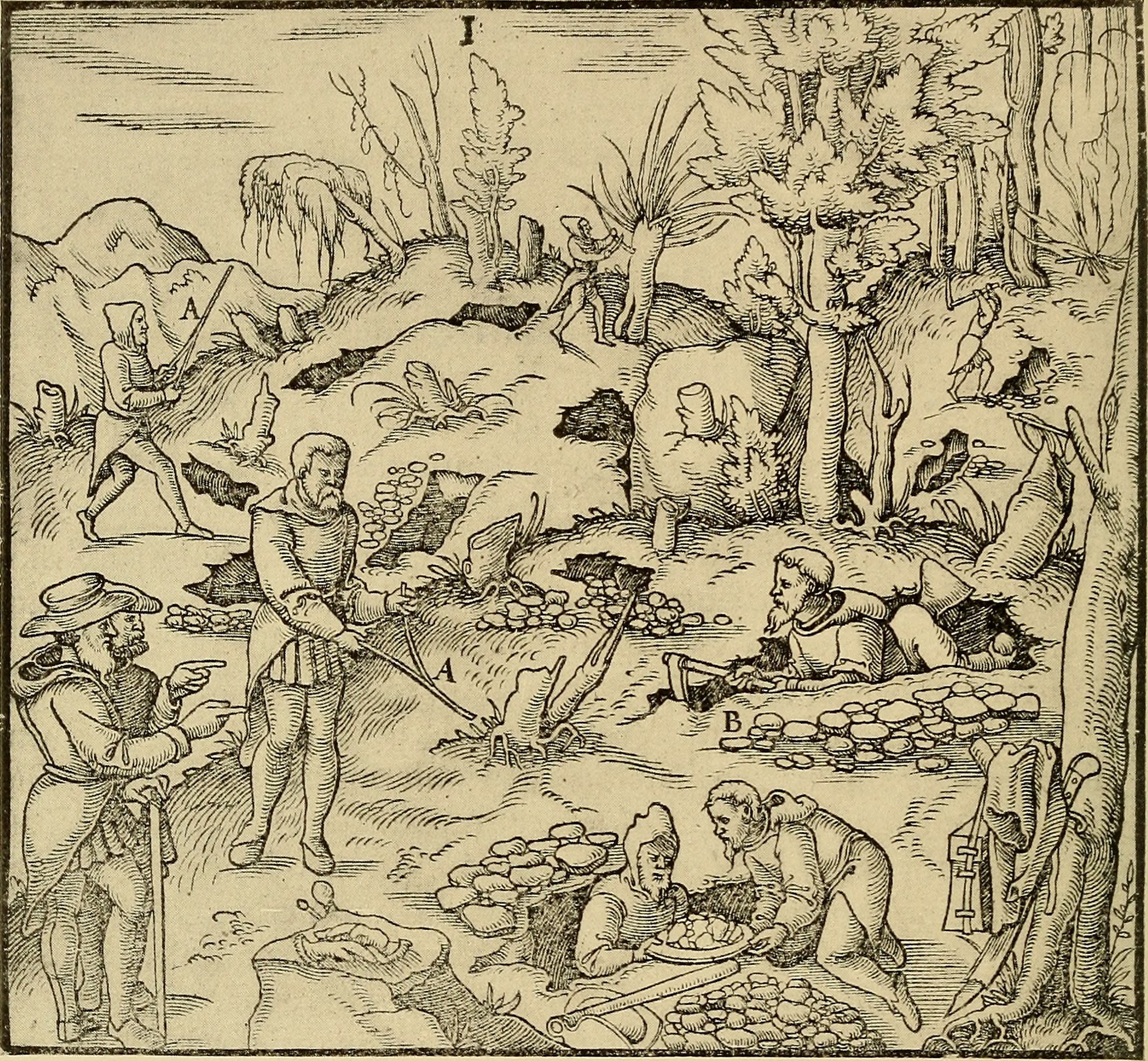 Title: Cassier's magazine Year: 1891 (1890s) Authors: Subjects: Engineering Publisher: New York Cassier Magazine Co. Text Appearing Before Image: THE OPERATORS POSITION IS MARKED O; G.G ARE THE POSITIONS OF THE TWO MEN HANDLING THE PINCERS p p: T IS THE TIP OF THE FORKED TWIG; AND Jl ll ARE THE POSITIONS OF THE OPERATORS HANDS smallest surface of contact with the axle,—to wit, a short line of tangency to thecurved surface,—while the fingers of theoperator clasp the entire circumferenceof the same axle. In other words, theresisting force is reduced to its smallest 113 li4 CASSIERS MAGAZINE Text Appearing After Image: USING THE DIVINING ROD FOUR HUNDRED YEARS AGO, AS PICTURED BY AGRICOLA efficiency, besides being left uncertainas to effective amount, being dependentupon the shape of the pincers, the natureof their jaw-surfaces, and of the surfaceto which they are applied, and theamount of energy actually exerted bythe hands which hold them. As to the last item, I must say that Iwould expect much more from the twohands of the stalwart operator than fromthe pair of hands contributed respec-tively by the youthful and the venerablechampions of inertia shown in the pic-ture. It seems clear to me that theconditions of this test were arranged bythe diviner and politely accepted by thevisitors; otherwise, it would have beeneasy and obvious to measure directlythe strength of the movement of thepoint T by attaching it to a spring bal- ance, or otherwise determining theweight which it could lift by dip-ping. This reported test, declared to be the most interesting part of the dem-onstration described, is not a